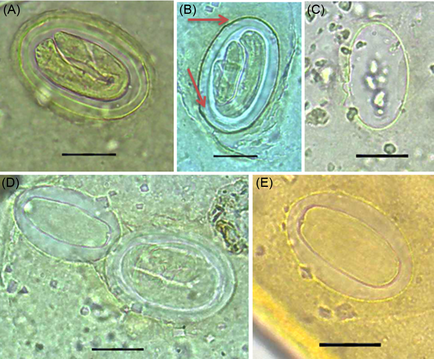 Figure 3 of paper: The six Physaloptera spp. eggs found in the soil sample. Note the embryos in A, B, D. Arrows in (B) show the considerable thickness of the egg shell. The diagnosis cannot be made with certainty for the egg in (C). Scale bars = 20 μm. Egg shows a hyalinized state of its content (E).